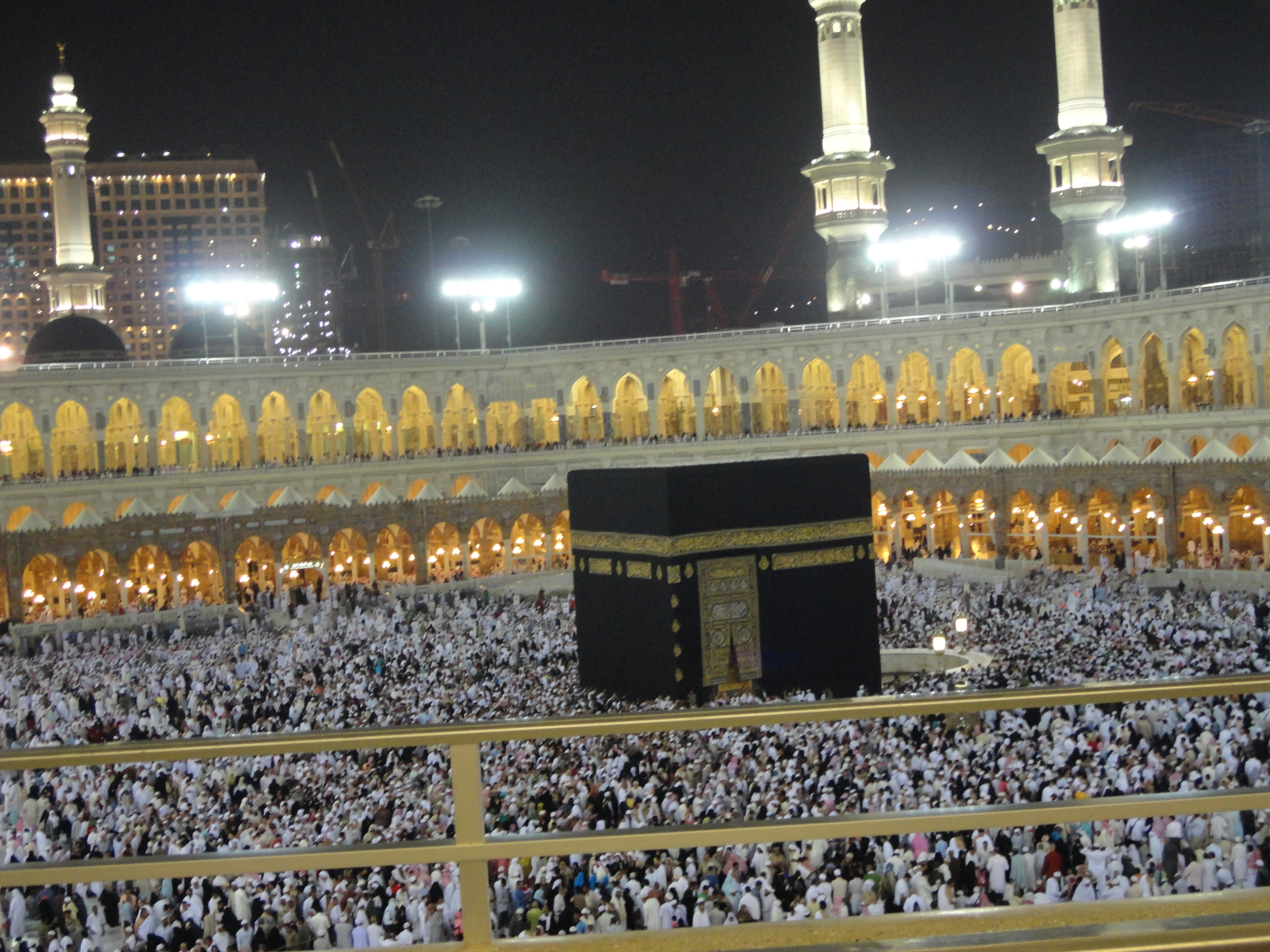 This is the Picture of Masjid al-Haram